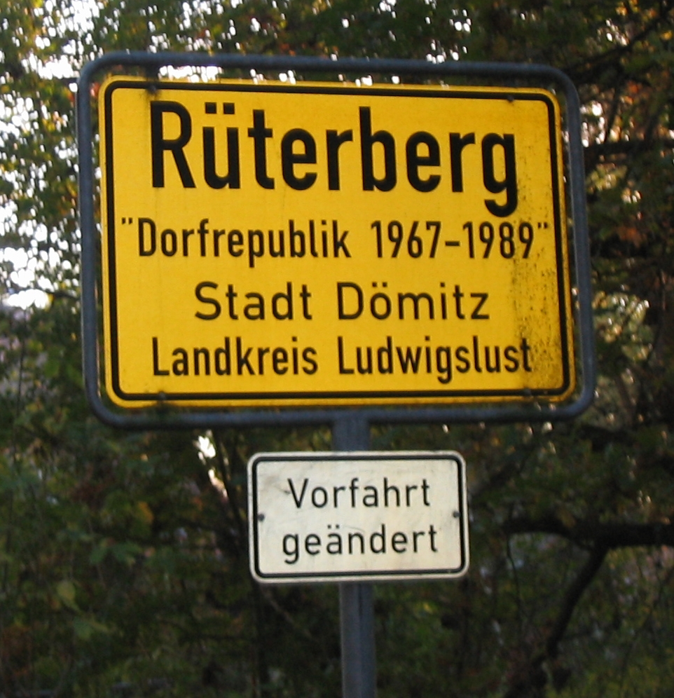 City limit sign in Rüterberg, district Ludwigslust, Mecklenburg-Vorpommern, Germany